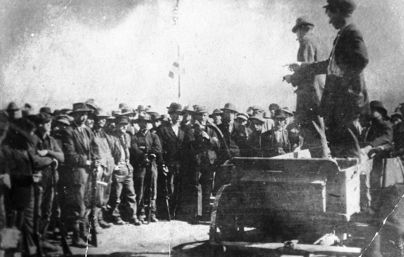 UMWA labor union organizers address coal miners on strike against CF&I, in Ludlow, Las Animas County, Colorado; United States flags are over the crowd. Set during the Colorado Coalfield Wars.